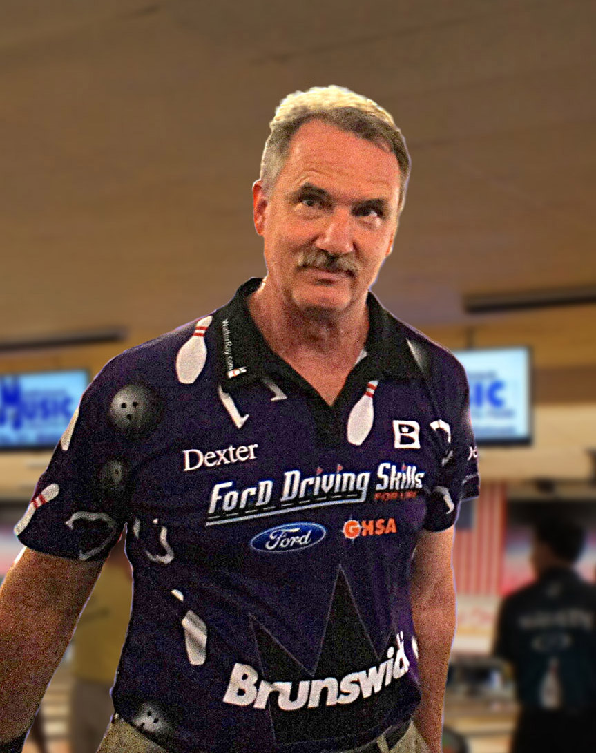 Ten-pin bowler Walter Ray Williams, Jr. at a bowling tournament in Middletown, Delaware, U.S. Misc. digital adjustments (brightness, contrast, levels, sharpness) were made to subject due to low lighting conditions. Background was changed.